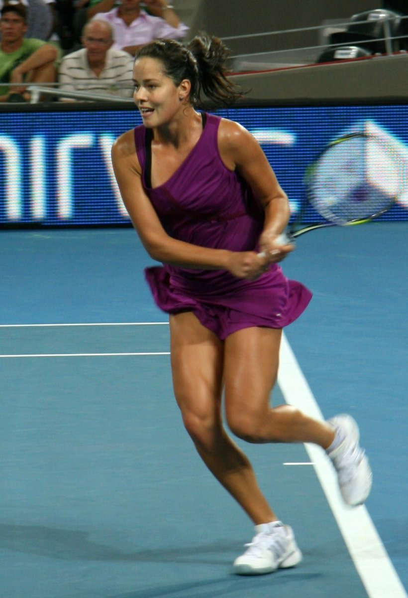 Ana Ivanovic at the 2009 Brisbane International, during her first round match against Petra Kvitova